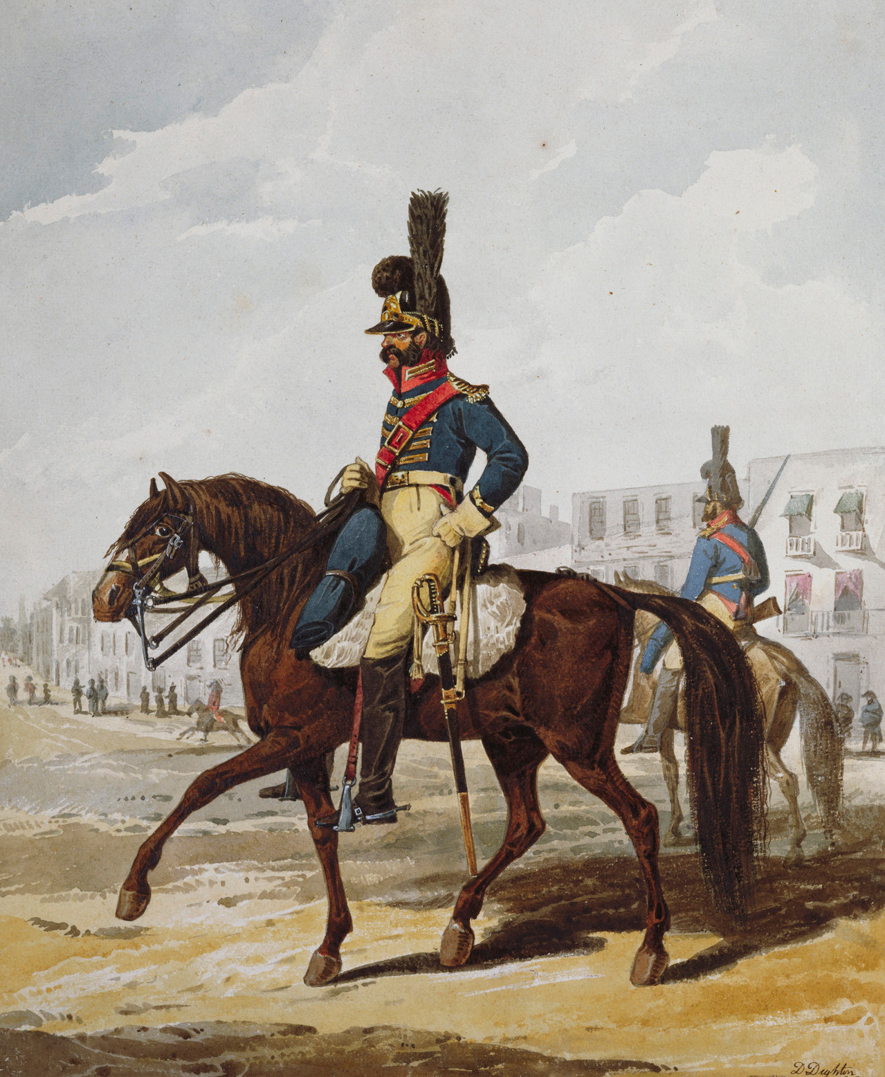 Cavalry of the Royal Police Guard of Lisbon, 1812. Drawn by Denis Dighton.